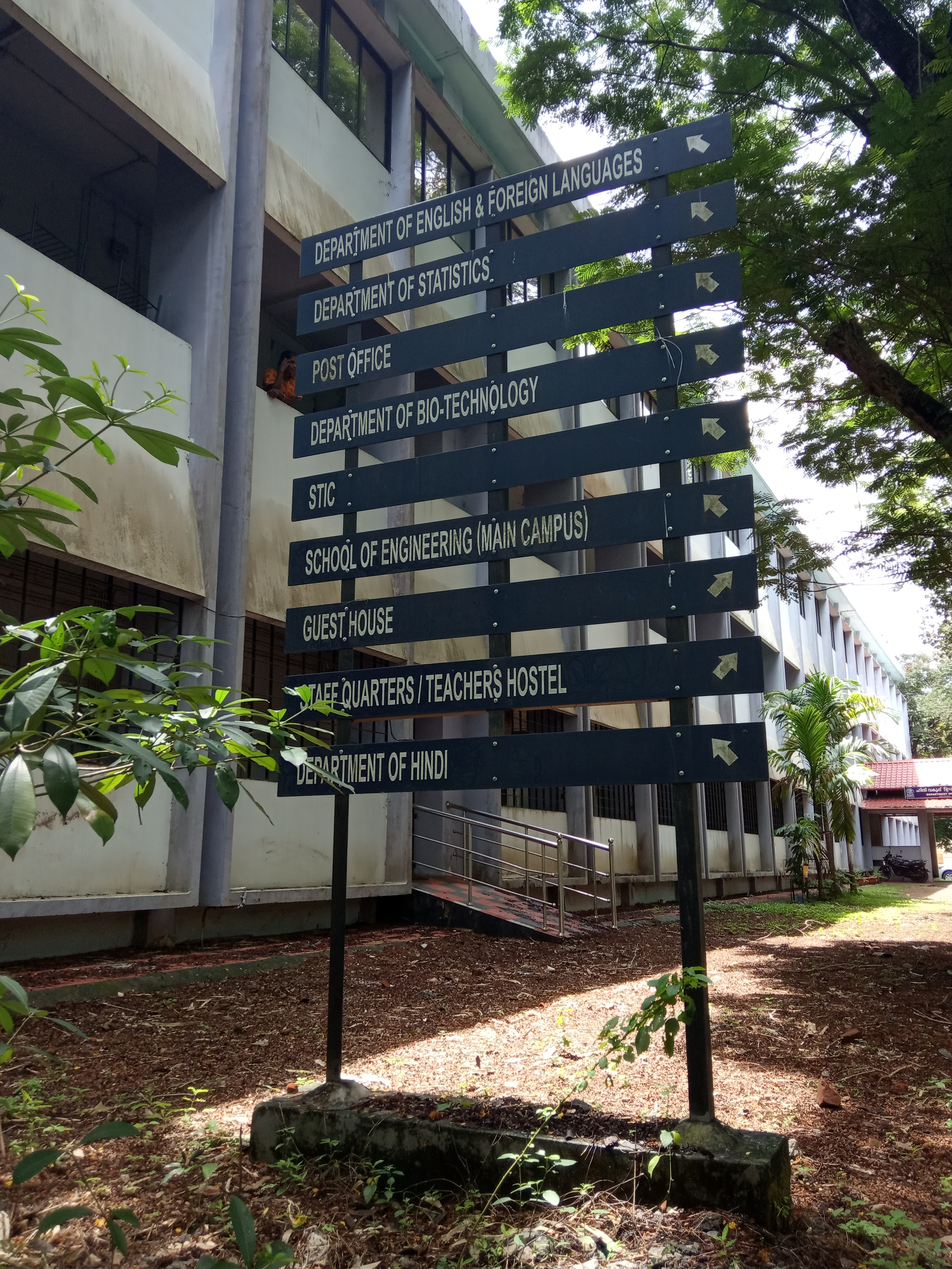 in university , it is a board heloing people to go various ways